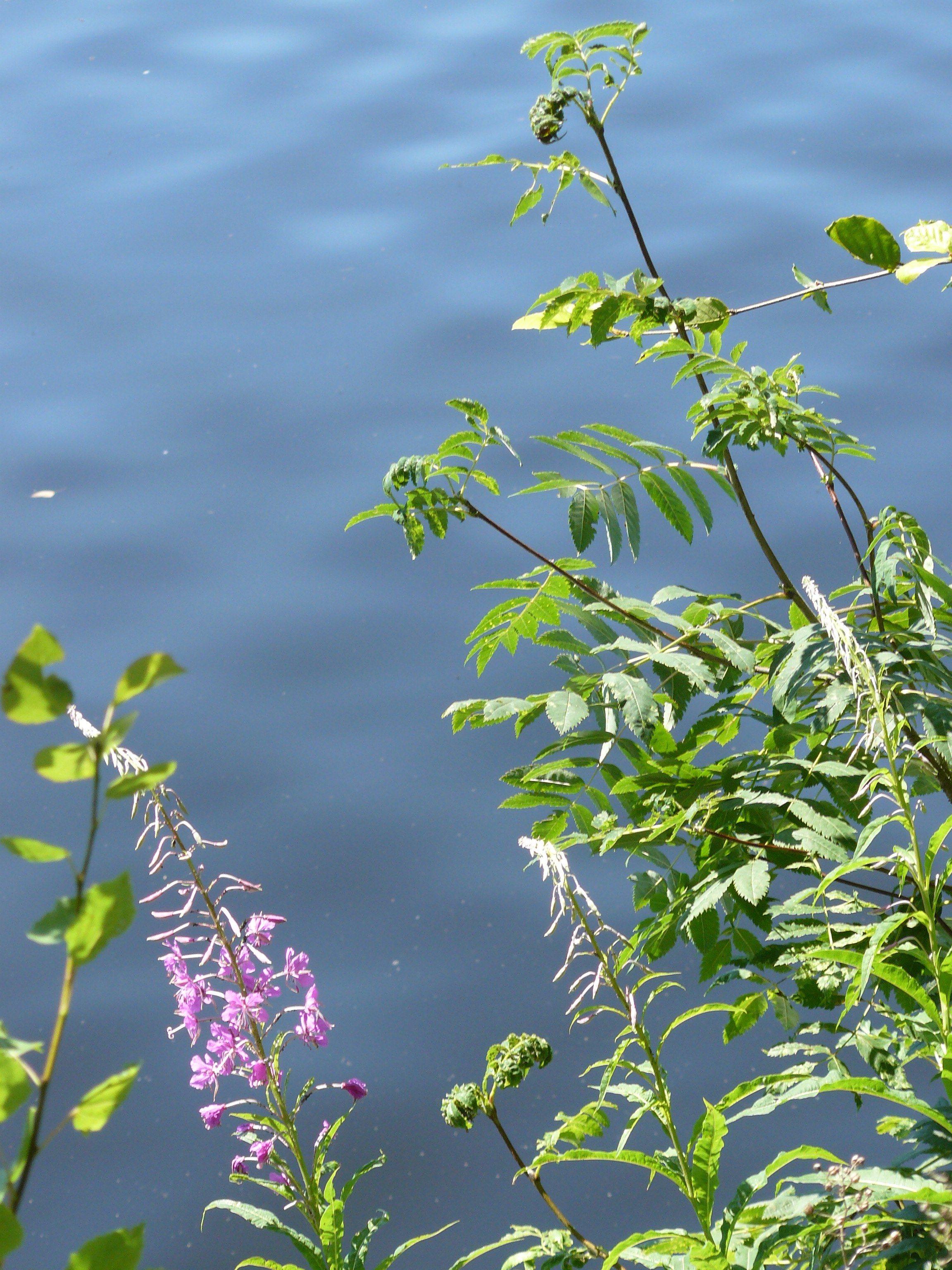 Nature reserve Velký Pařezitý rybník, Jihlava District, Czech Republic.